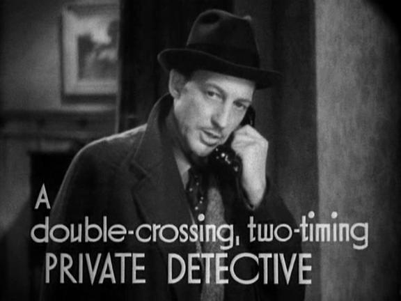 Frame from public domain trailer for Warner Bros. 1936 film Satan Met a Lady showing Warren William with type: "Double-crossing, two-timing".